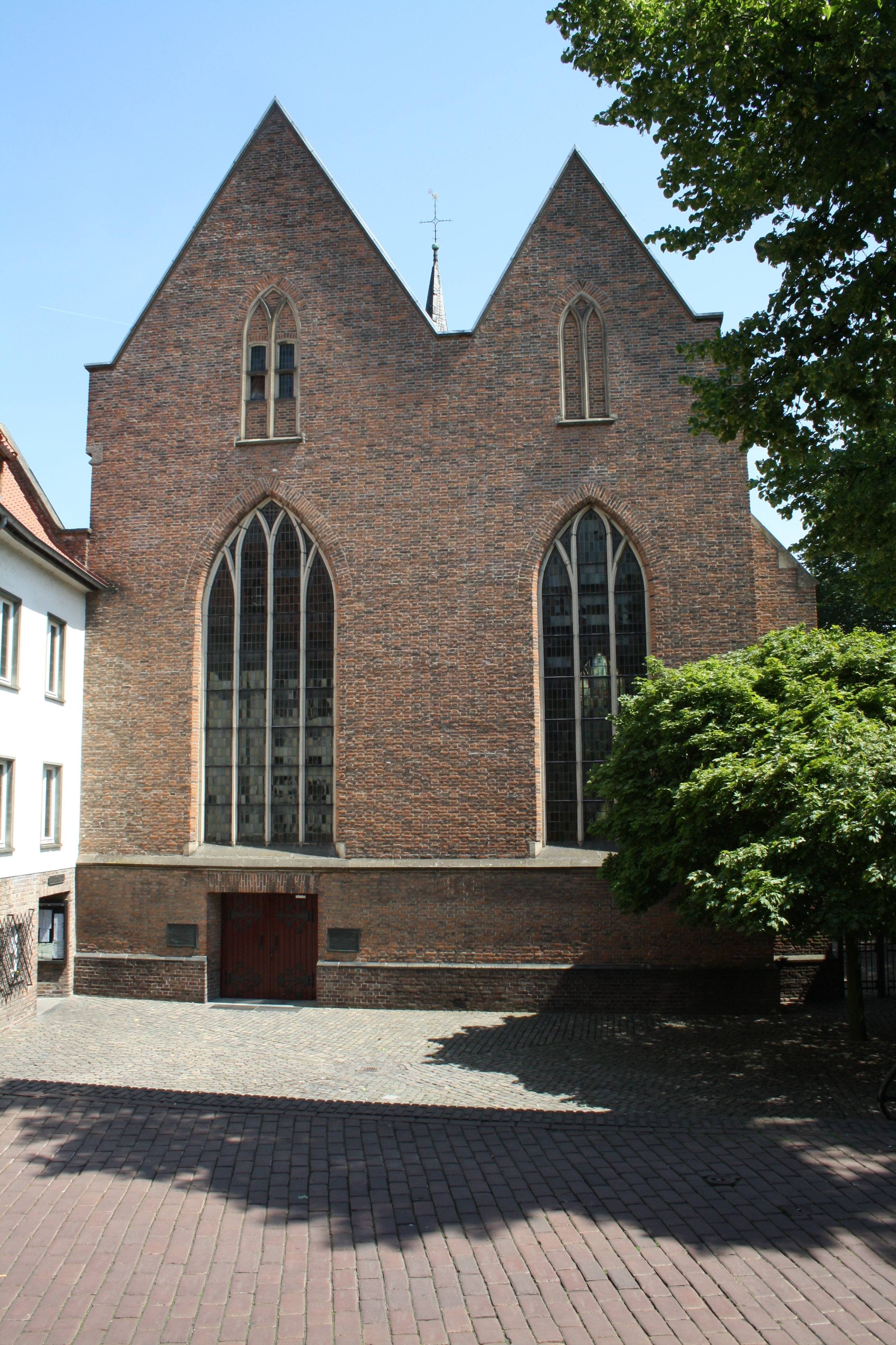 Former Franciscan church of the Immaculate conception in Cleves, North Rhine-Westphalia, Germany